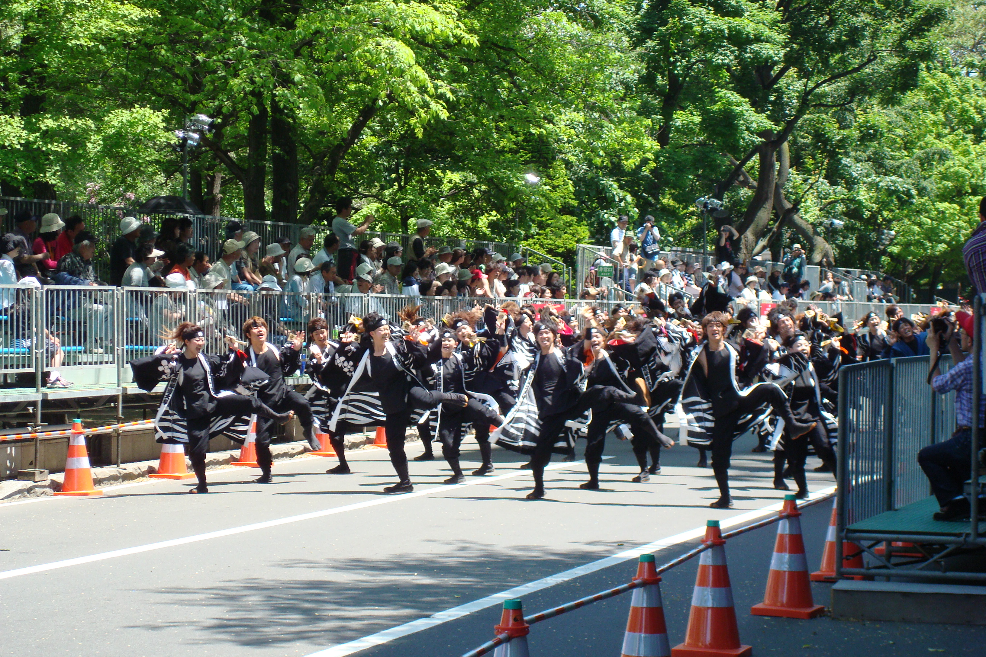 YOSAKOI Soran Festival in 2010